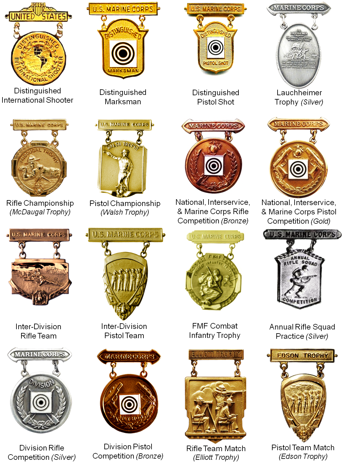 Example images of U.S. Marine Corps Marksmanship Competition Badges. Note: The Lauchheimer Trophy Badge, National/Interservice/Marine Corps Rifle/Pistol Competition Badges, Annual Rifle Squad Practice Badge, and Division Rifle/Pistol Competition Badges are awarded in gold, silver, and bronze.